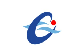 Flag of Nagashima Kagoshima